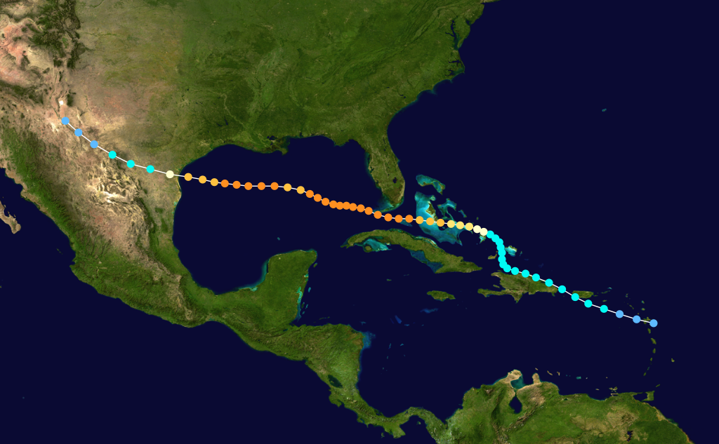 1919 Florida Keys hurricane track. Uses the color scheme from the Saffir-Simpson Hurricane Scale.